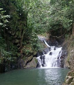 Billy Barquedier Waterfall